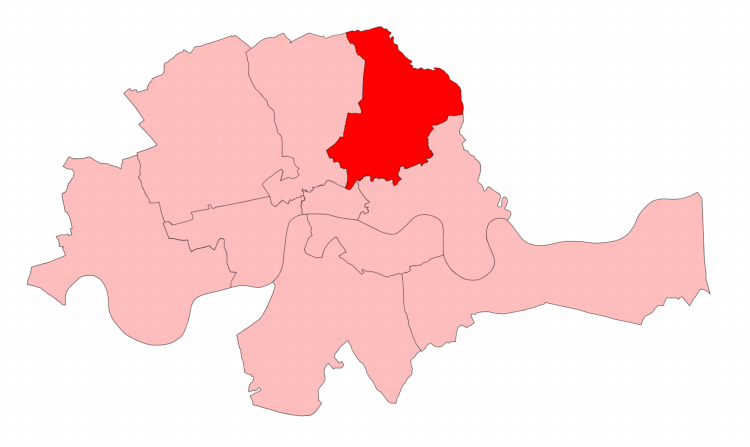 A map of Hackney constituency within the Metropolitan Board of Works area, as it existed from 1868 to 1885.